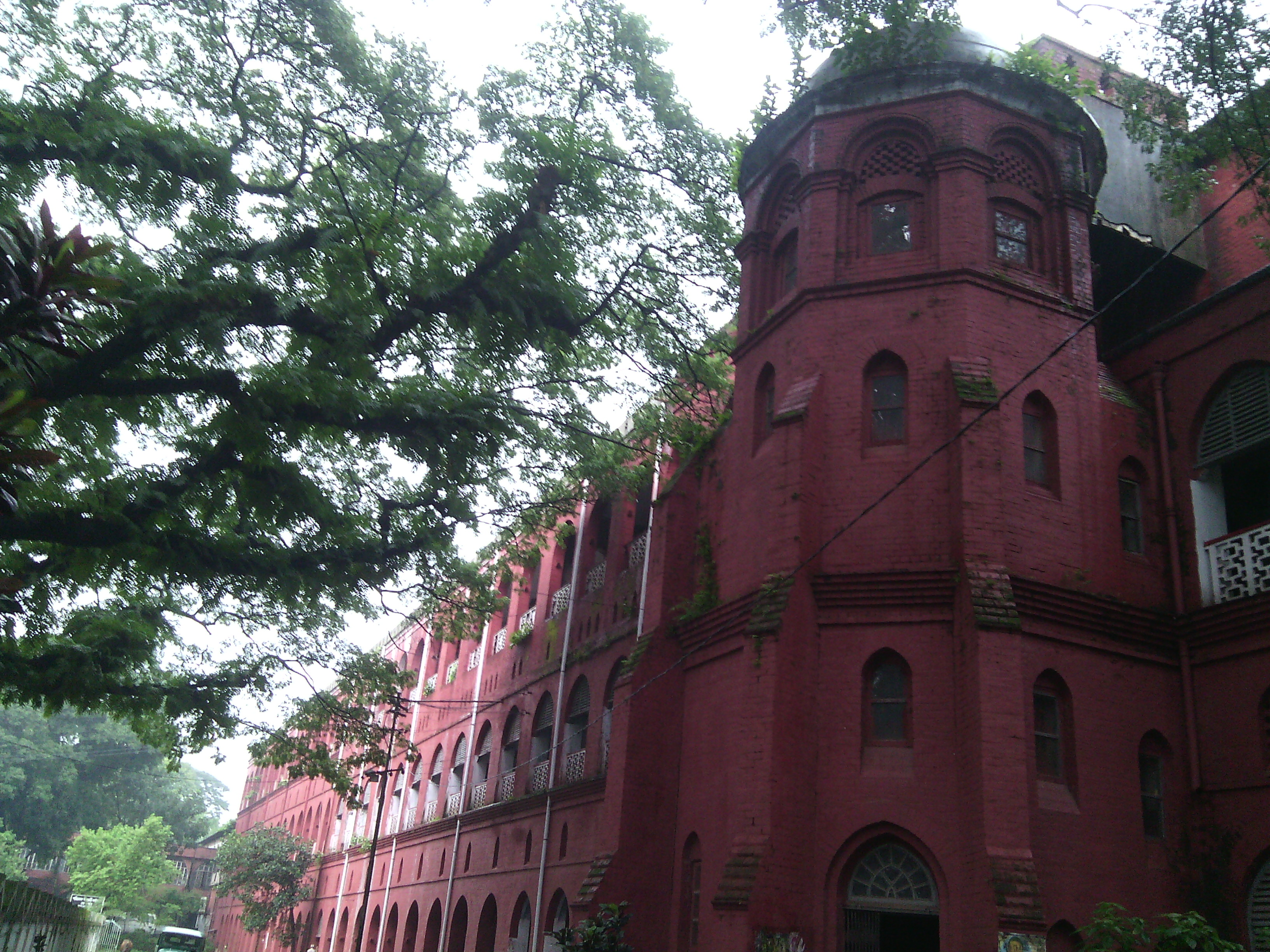 চট্টগ্রাম শহরের সি আর বি হিল